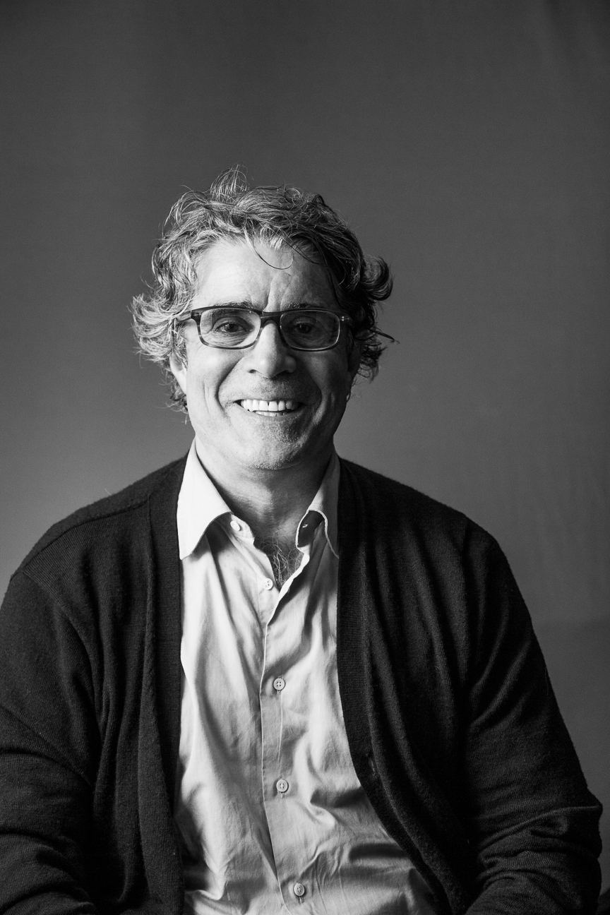 Jordi Torrent 2018